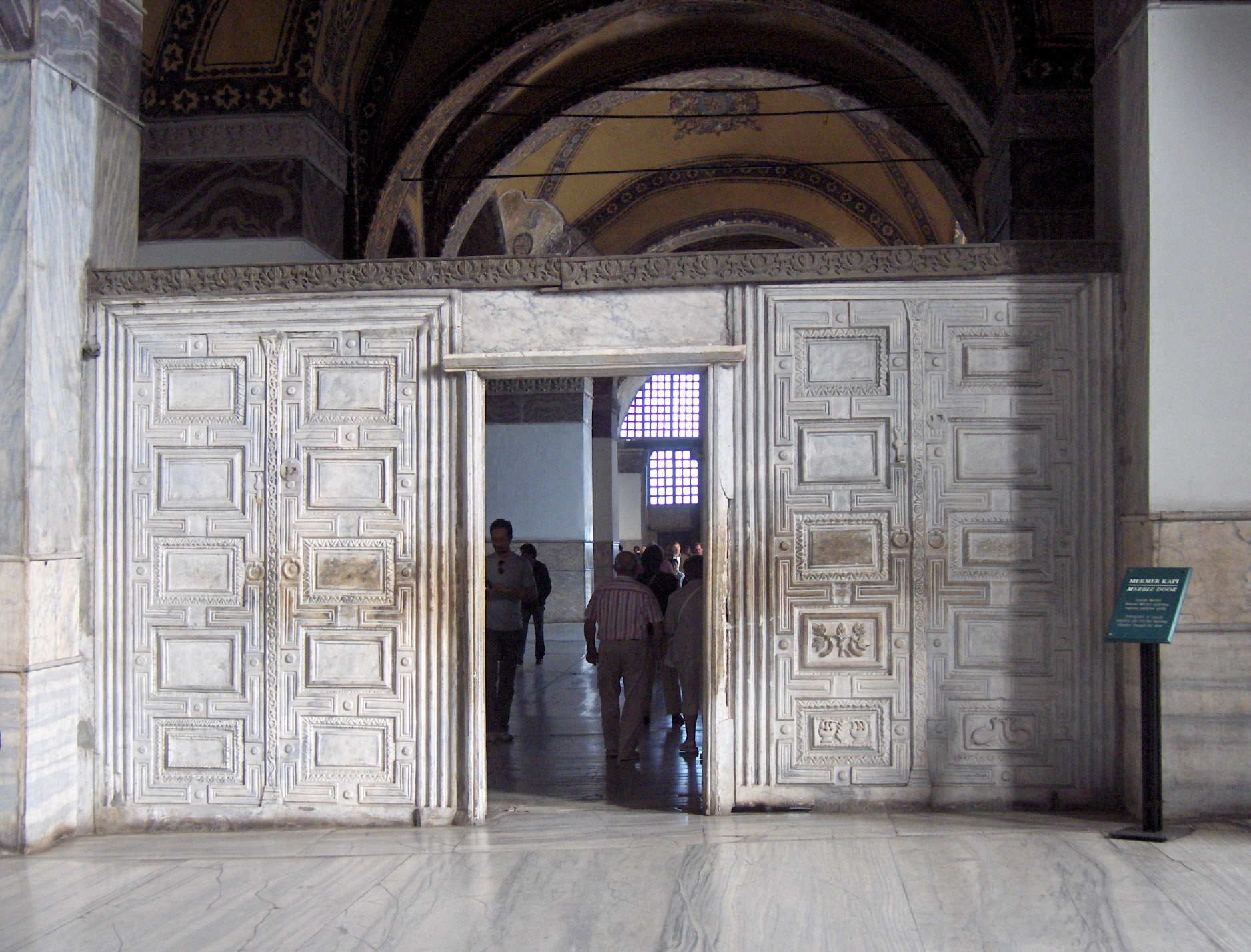 Hagia Sophia ; inside view : marble door between western and southern gallery; Istanbul, Turkey